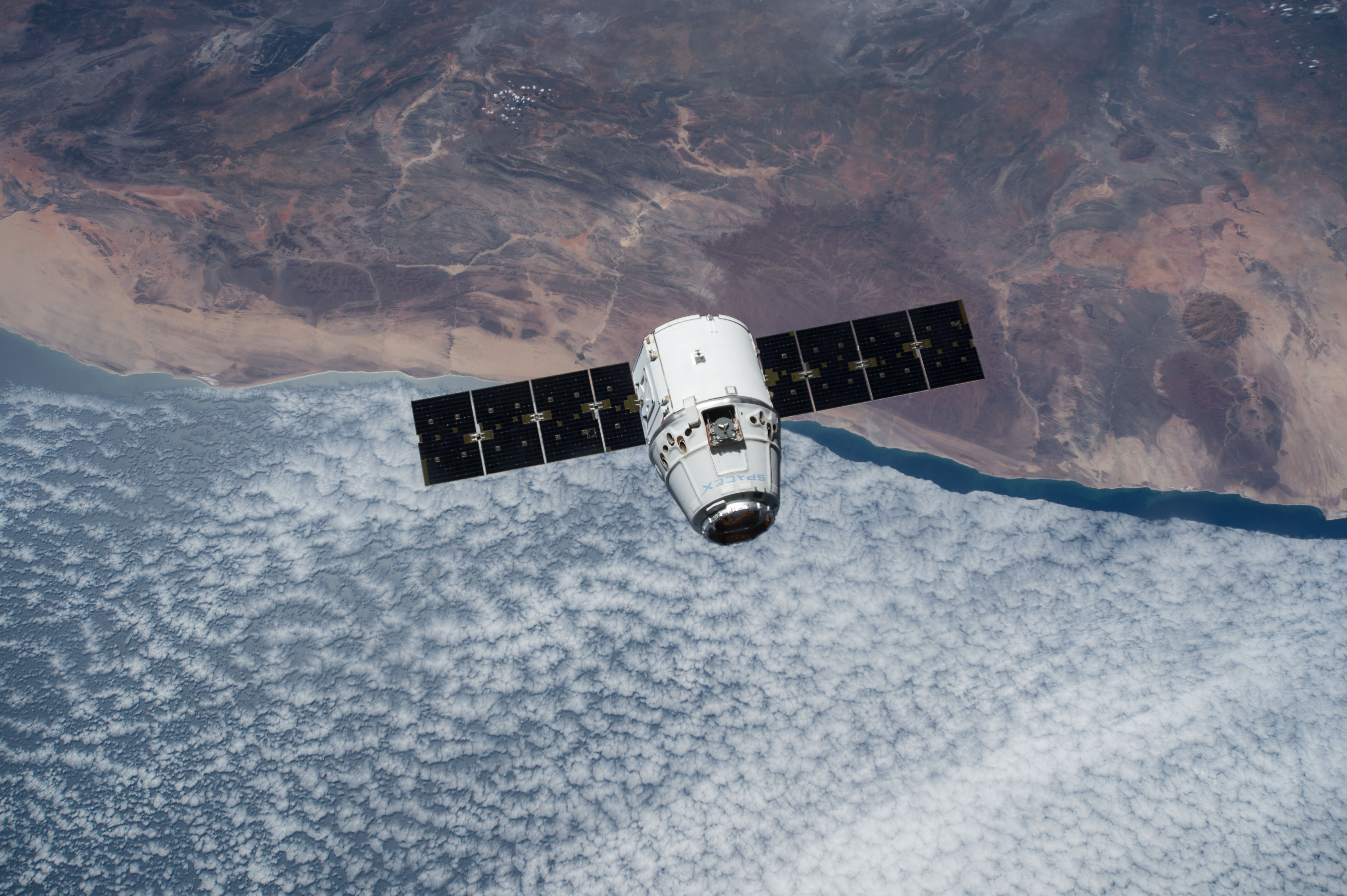 ISS043E122200 (04/17/2015) --- The SpaceX Dragon cargo spacecraft approaches the International Space Station Apr. 17th, 2015 after launching three days earlier from Cape Canaveral Air Station, Florida. It carries some 2 tons of science experiments, equipment, and supplies for the Expedition 43 team onboard the station.